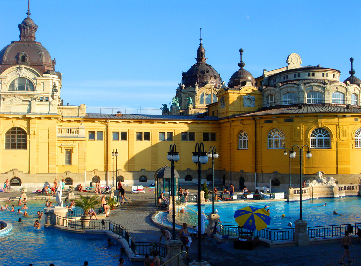 Szechenyi Baths in Budapest.